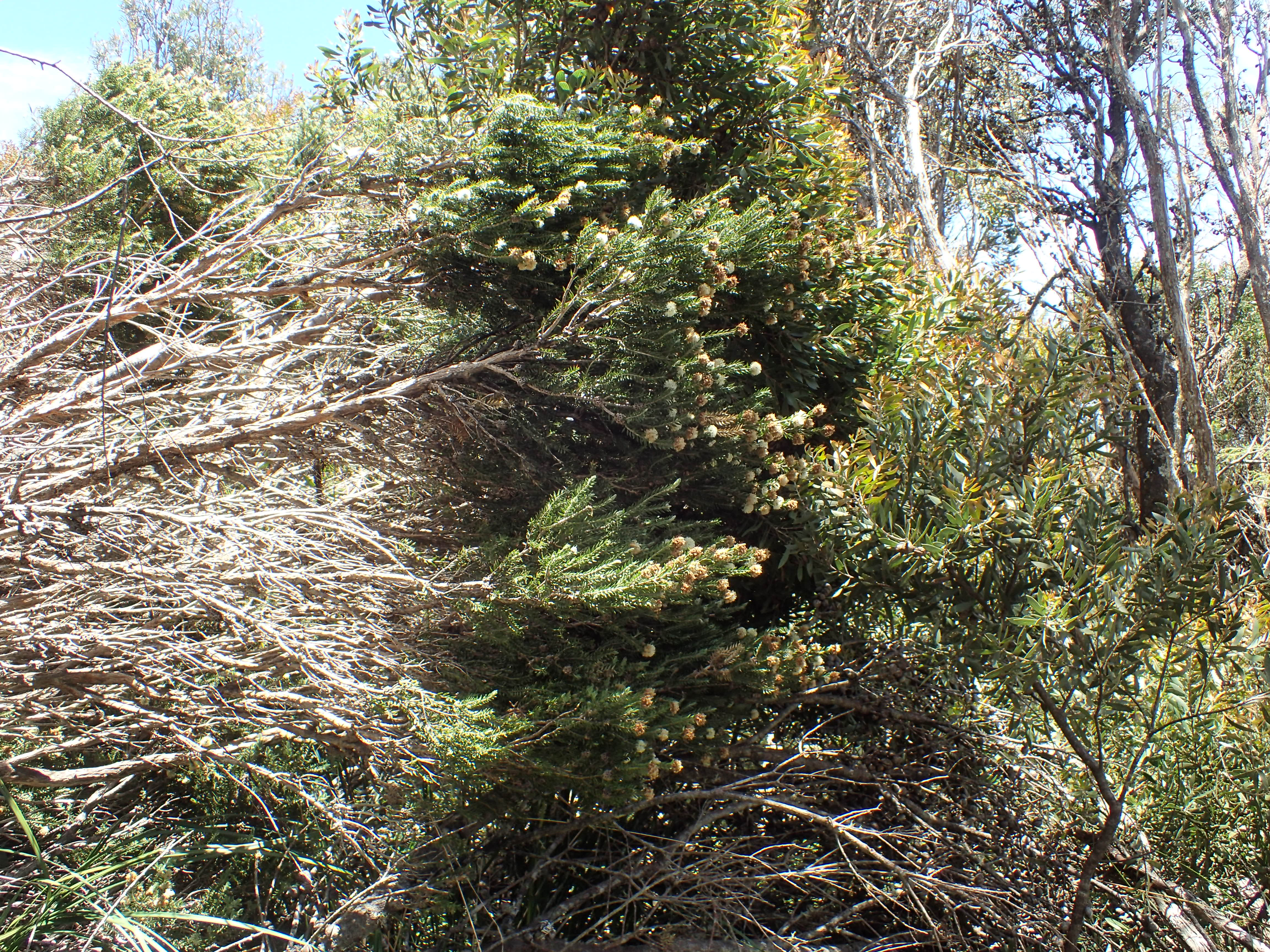 Melaleuca tortifolia growing in a dense thicket on Barren Mountain near Ebor with Leptospermum, Casuarina and Banksia